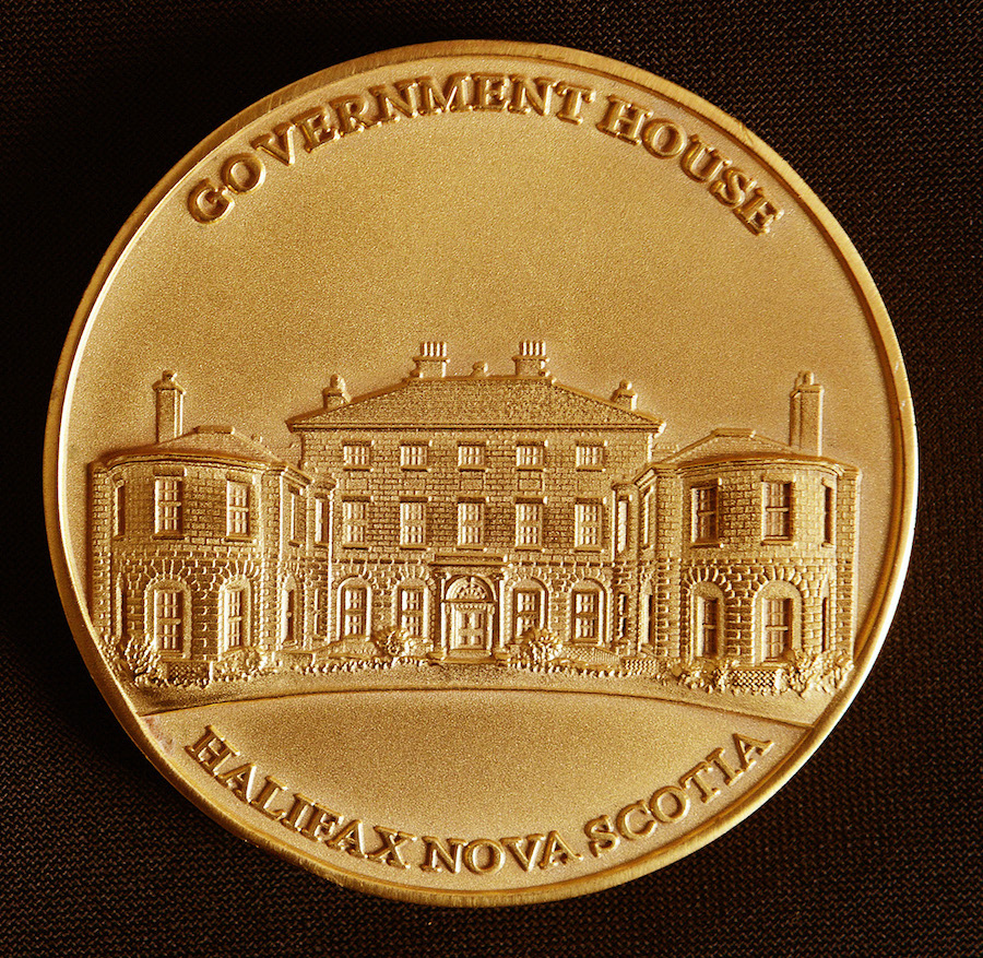 Gold Medal of Government House Halifax, an award given out by the Lieutenant Governor of Nova Scotia. Established in 2013. Awarded for service of a rare and exceptionally high standard, which accrues great benefit to the Office of the Lieutenant Governor and or the Province of Nova Scotia as a whole. Both residents of Nova Scotia and non-residents, including foreign citizens, are eligible for this award. The medal may be conferred upon any individual or group, with a maximum of two medals per year. The medal is engraved on the reverse with the name of the recipient and the year of the award, and is accompanied by a certificate signed by the Lieutenant Governor and sealed with the Privy Seal.